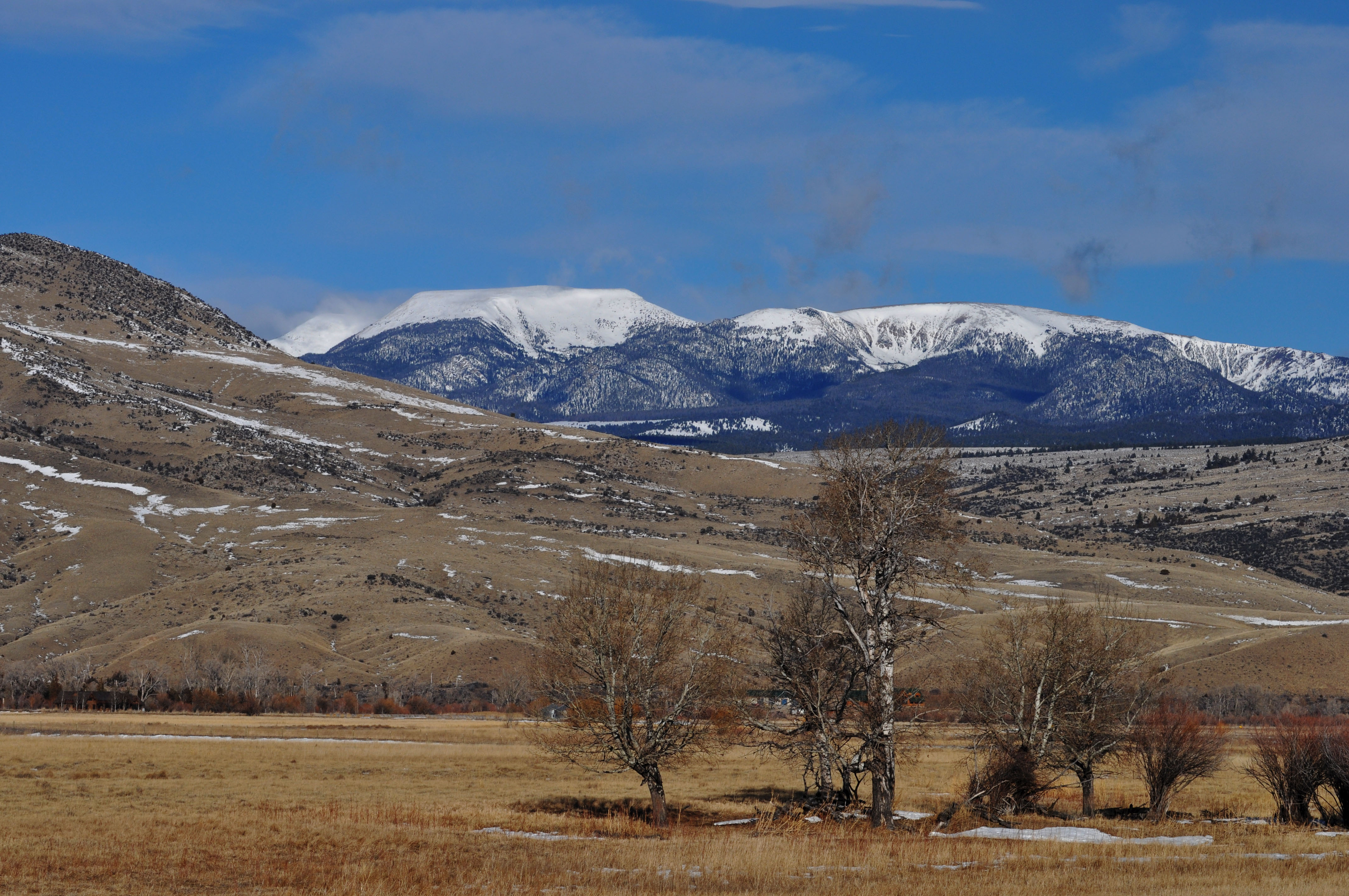 Table Mountain, Madison County, Montana, Highland Range, Hells Canyon Face, January 2015